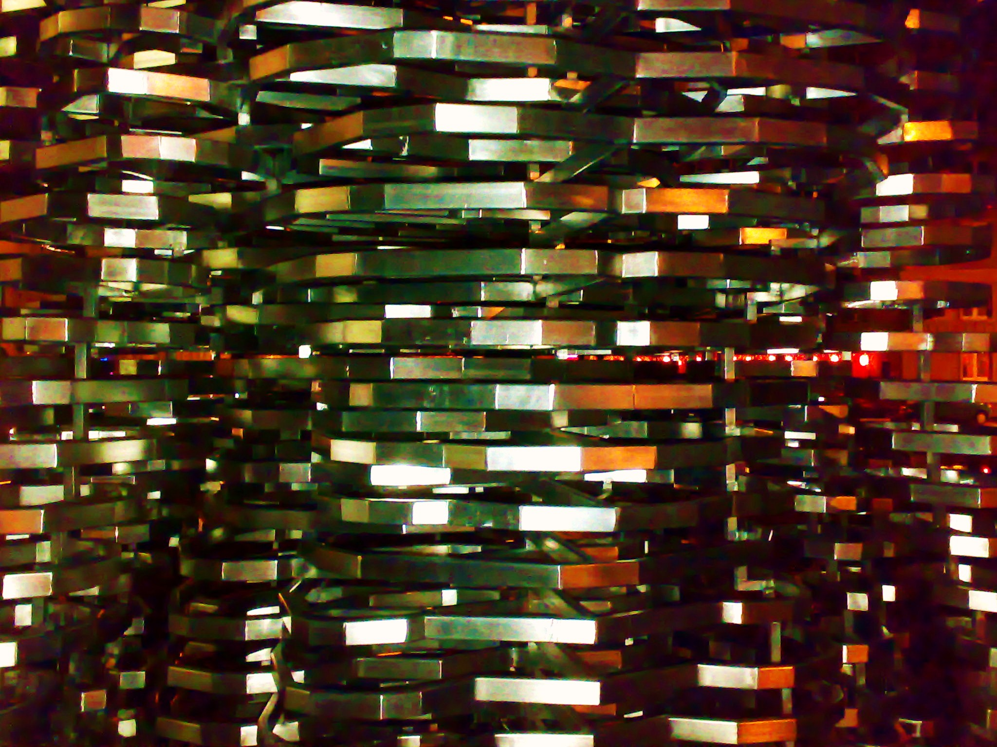 Poznan, Golem-Monument by Night. David Cerny - sculptore.